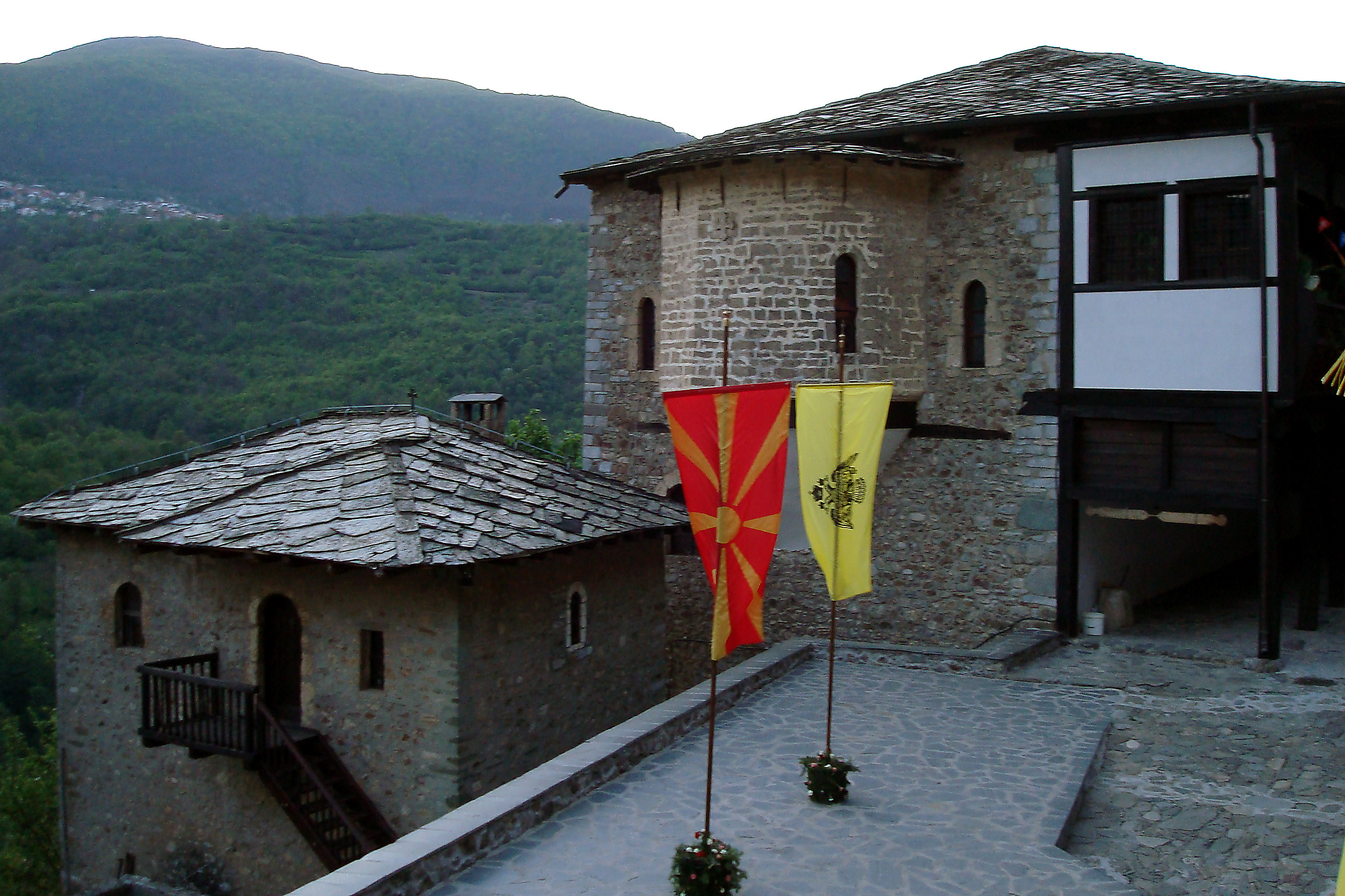 Monastery "Sveti Jovan Bigorski", Macedonia.